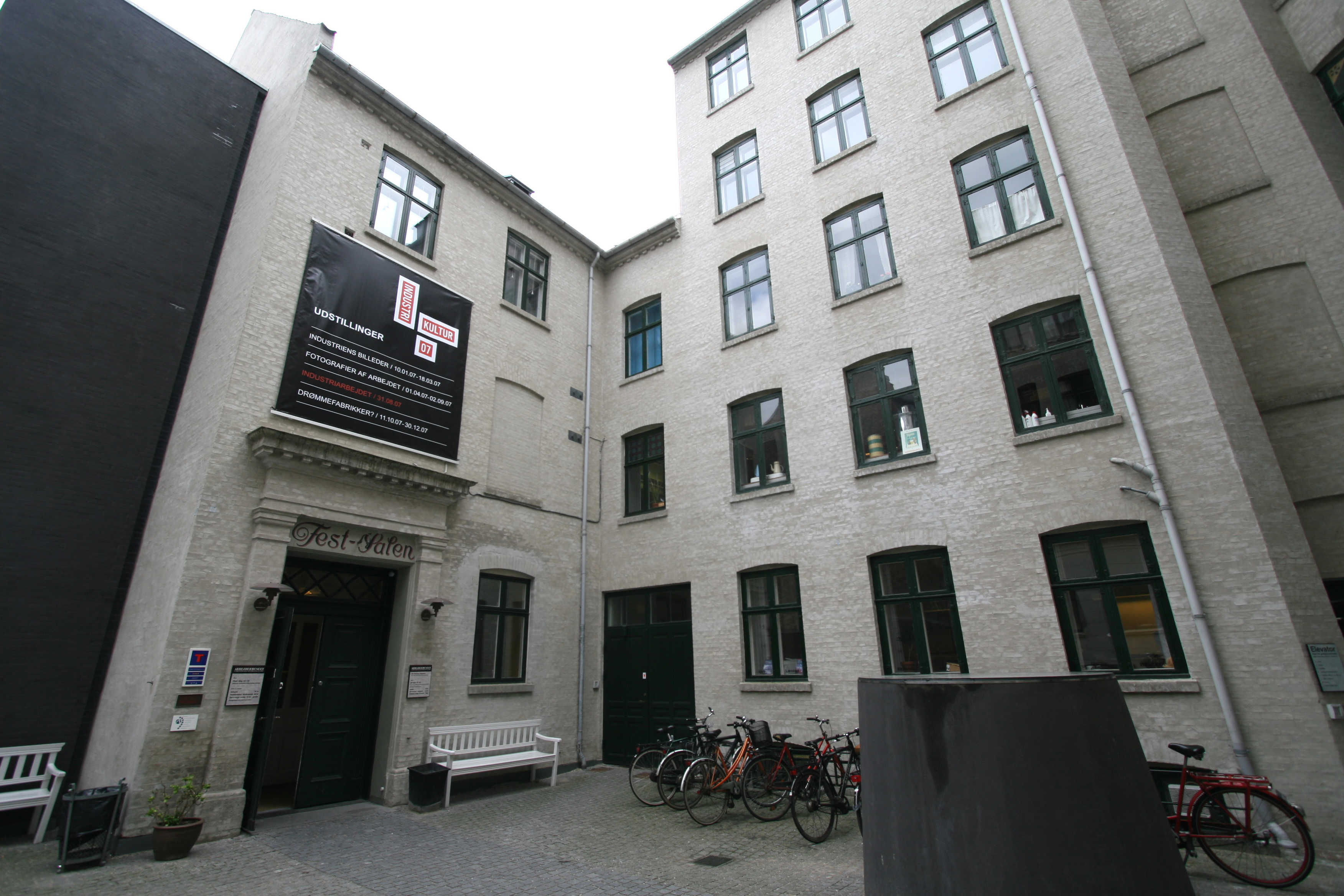 The Workers Museum. Courtyard.